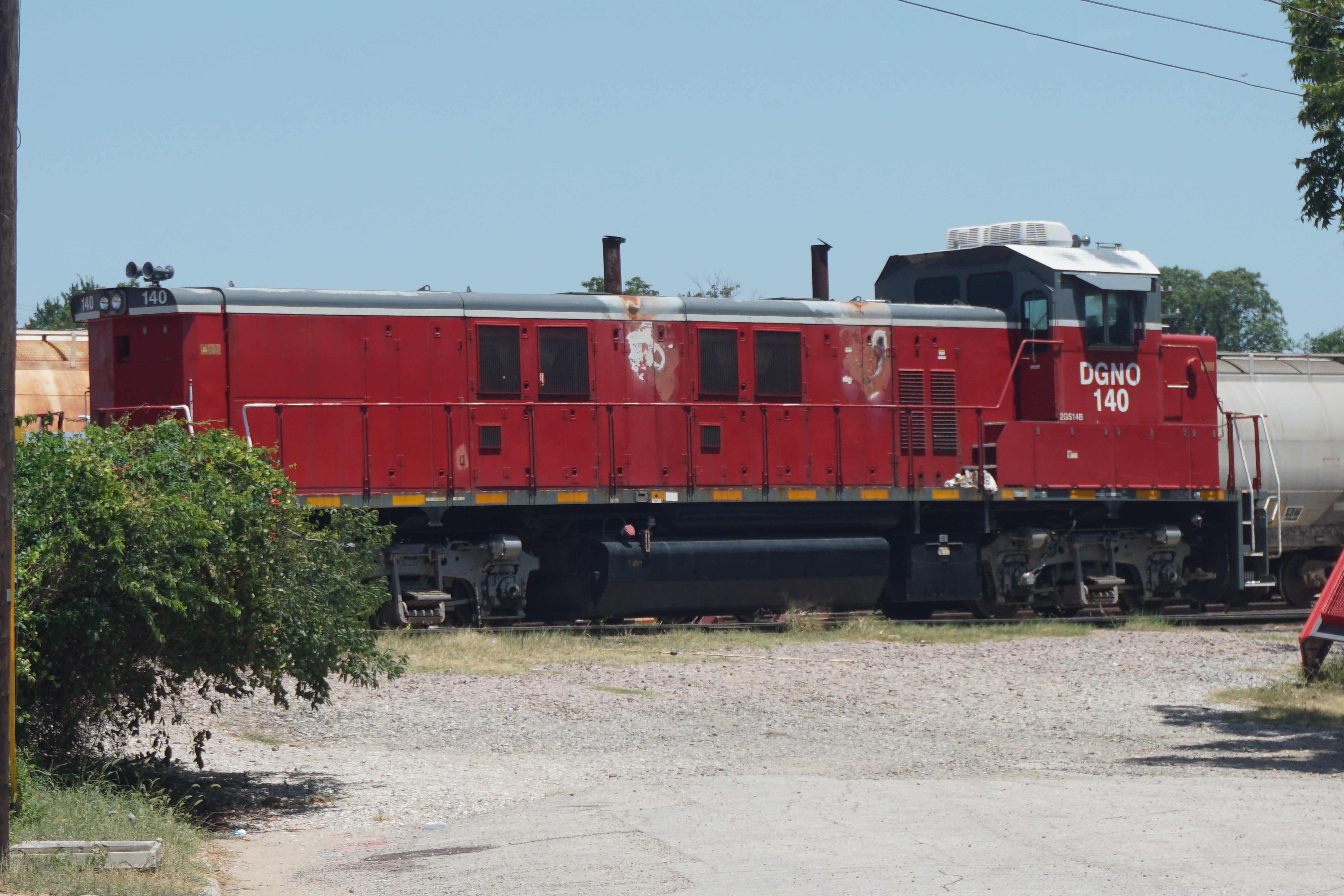 Dallas, Garland and Northeastern Railroad NRE 2GS14B #140 in Carrollton, Texas (United States).